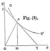 A diagram accompanying Alfred Marshall's original definition of price elasticity of demand. Captioned: The elasticity of demand can be best traced in the demand curve with the aid of the following rule. Let a straight line touching the curve at any point P meet Ox in T and Oy in t, then the measure of the elasticity at the point P is the ratio of PT to Pt. If PT were twice Pt, a fall of 1 per cent. in price would cause an increase of 2 per cent., in the amount demanded; the elasticity of demand would be two. If PT were one-third of Pt, a fall of 1 per cent. in price would cause an increase of 1/3 per cent. in the amount demanded; the elasticity of demand would be one-third; and so on. Another way of looking at the same result is this:—the elasticity at the point P is measured by the ratio of PT to Pt, that is of MT to MO (PM being drawn perpendicular to Om); and therefore the elasticity is equal to one when the angle TPM is equal to the angle OPM; and it always increases when the angle TPM increases relatively to the angle OPM, and vice versâ.